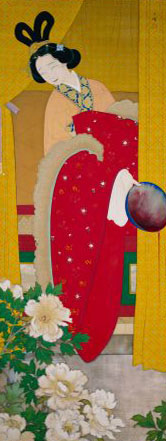 Painting of Kinshōjo from "The Battles of Coxinga"